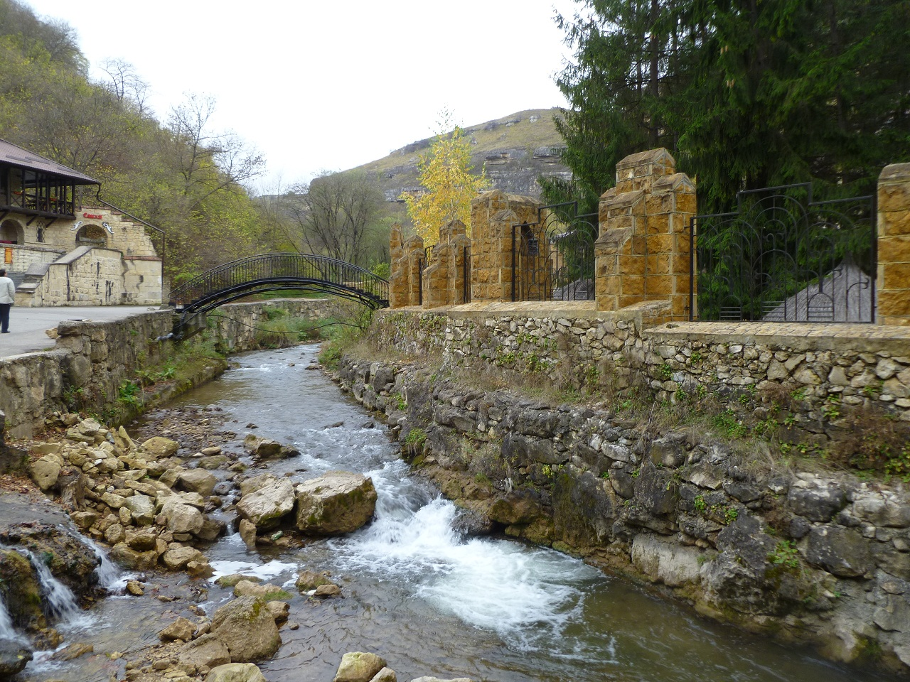 River near Kislovodsk